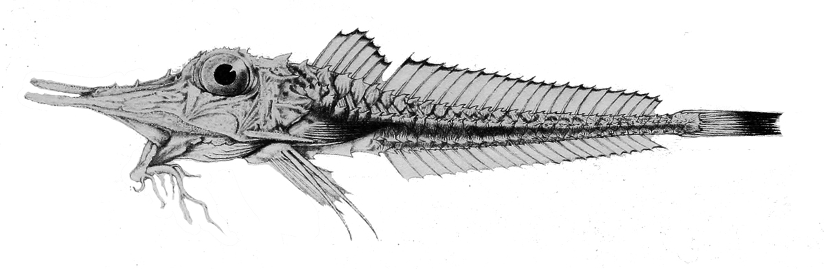 Satyrichthys serrulatus